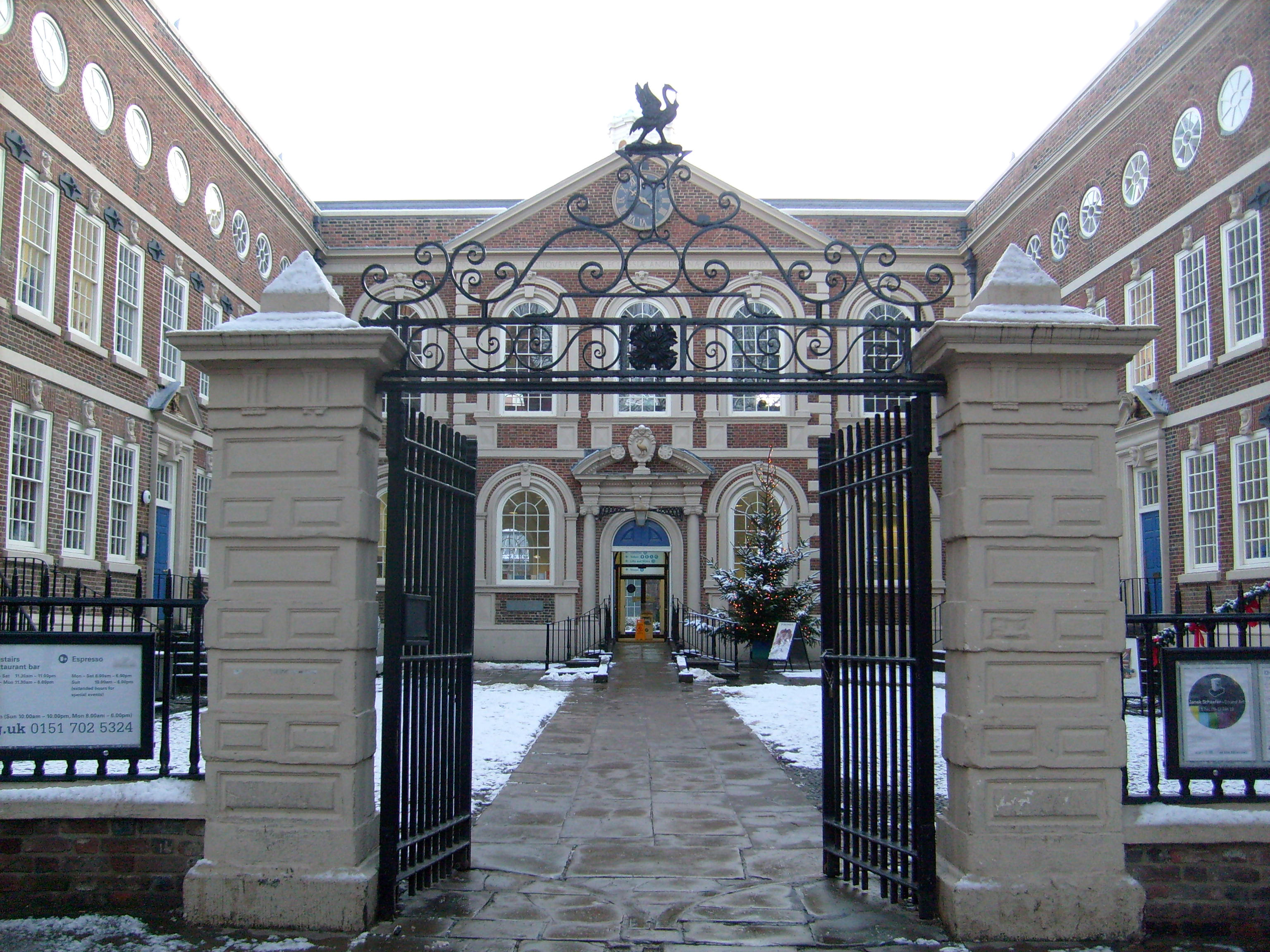 Liverpool Bluecoat Jan 6 2010